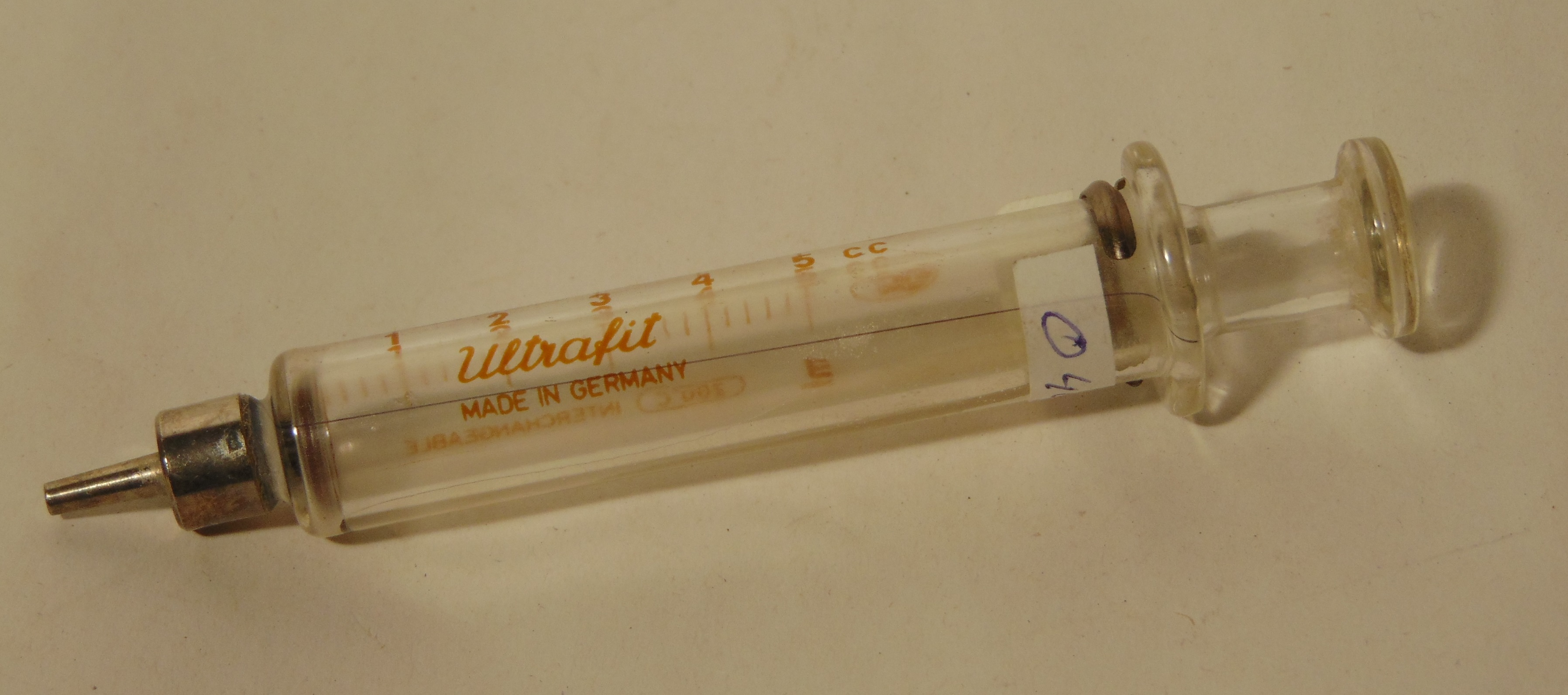 Syringe, “Ultrafit made in Germany". Photographed in the collection of the National Liberation Museum 1944-1945, the Netherlands, archive number 049.048.